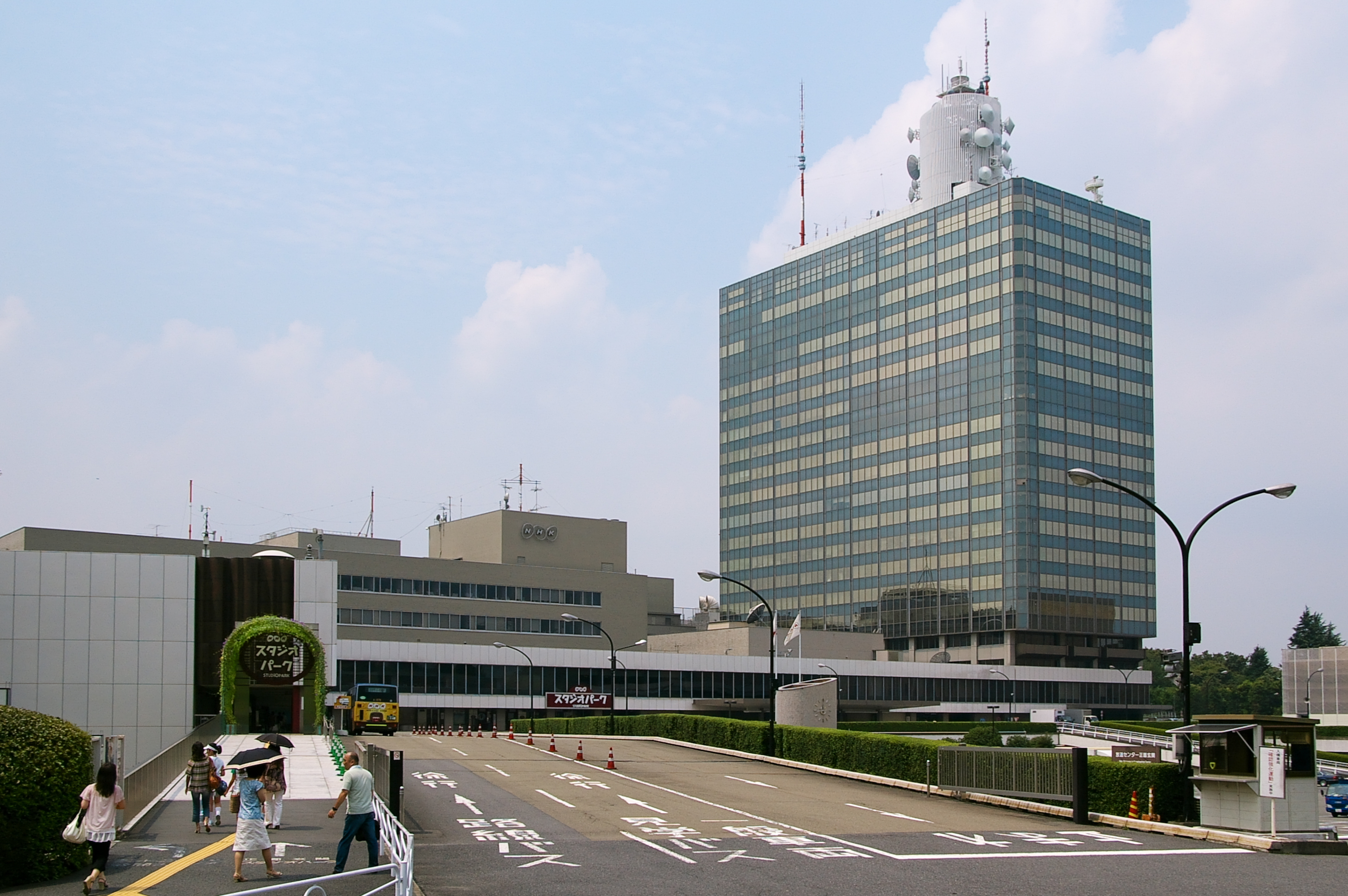 Photograph of NHK Broadcasting Center, headquarters of NHK (Japan Broadcasting Corporation), in Shibuya-ku, Tokyo, Japan.